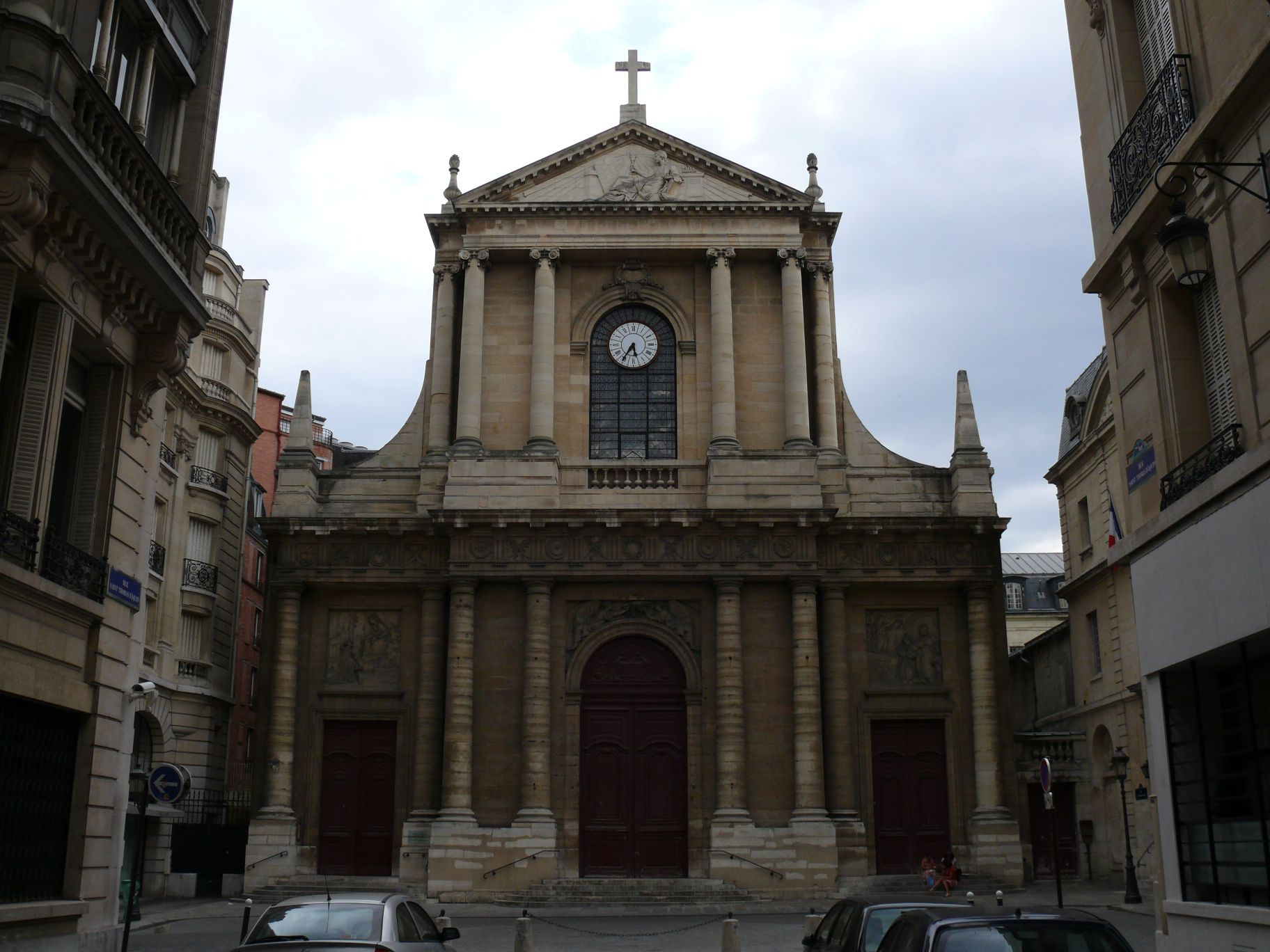 Saint-Thomas-d'Aquin's church (Paris VII, France)